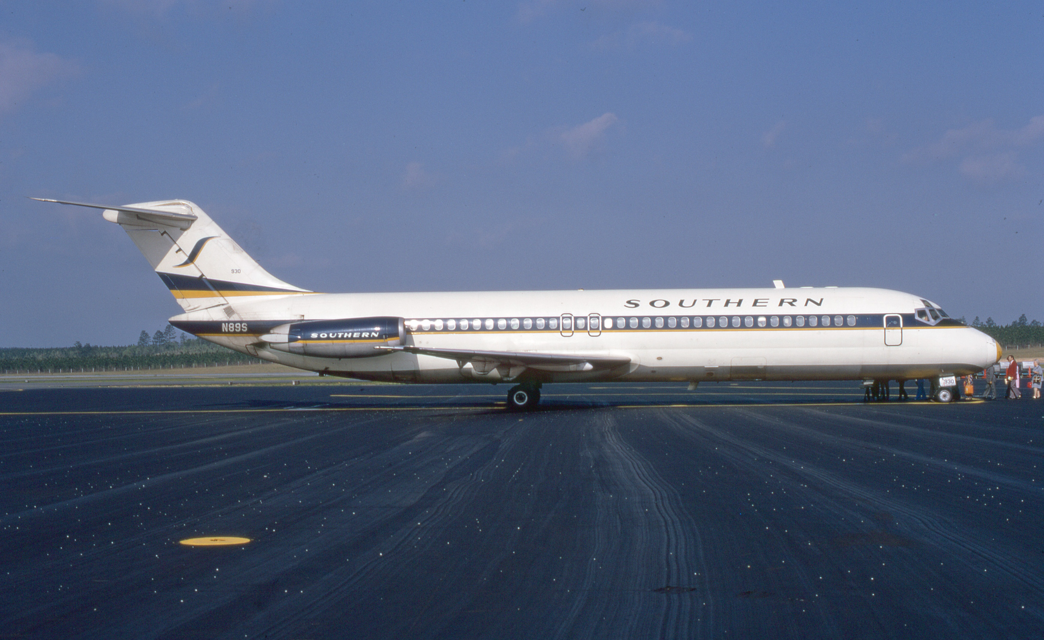 Tallahassee, 1972. A carrier I know very well from my childhood. Slide taken no doubt on a typical hot humid Summer morning. The nosecone has the "Have A Nice Day" Smiley Face painted upon it.